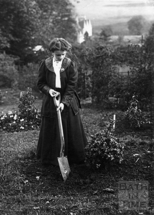 Gertrude Stewart. From a unique collection of glass plate negatives taken by Col. Linley Blathwayt of Eagle House, Batheaston, home of refuge for suffragettes between 1908 and 1912. He died in 1919. The pictures are made available in larger formats by . - who claim copyright of these 100 year old plus published pictures